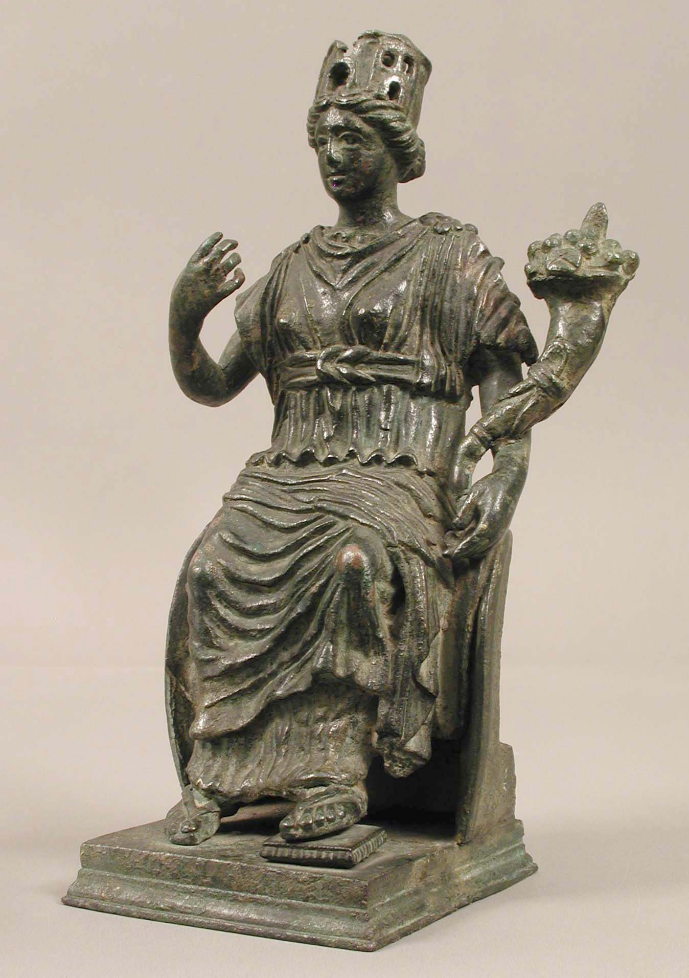 Late Roman or Byzantine; Statuette; Metalwork-Copper alloy